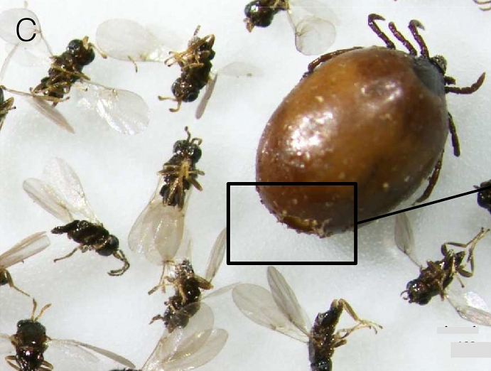 Ixodiphagus hookeri, adults around the dead body of an engorged nymph of Ixodes ricinus